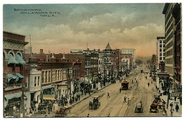 Postcard: Broadway in Oklahoma City, Oklahoma, about 1910; eBay store Web page states: "1910 postmark. / Size: 3-1/2 x 5-1/2""